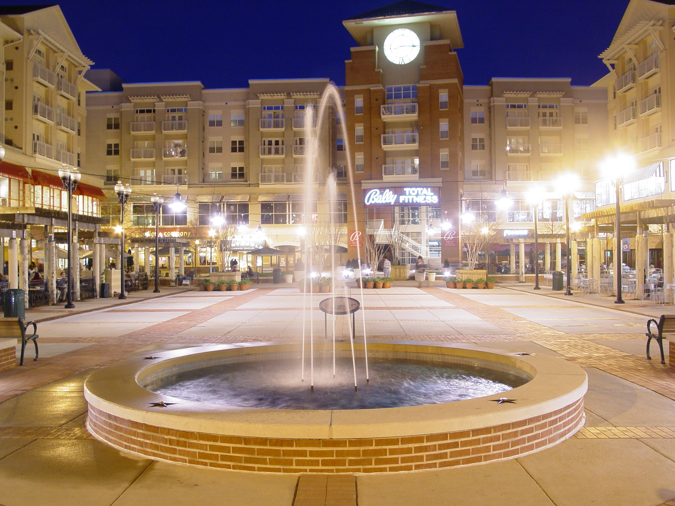 The central area of Pentagon Row in Arlington, Virginia, at night.